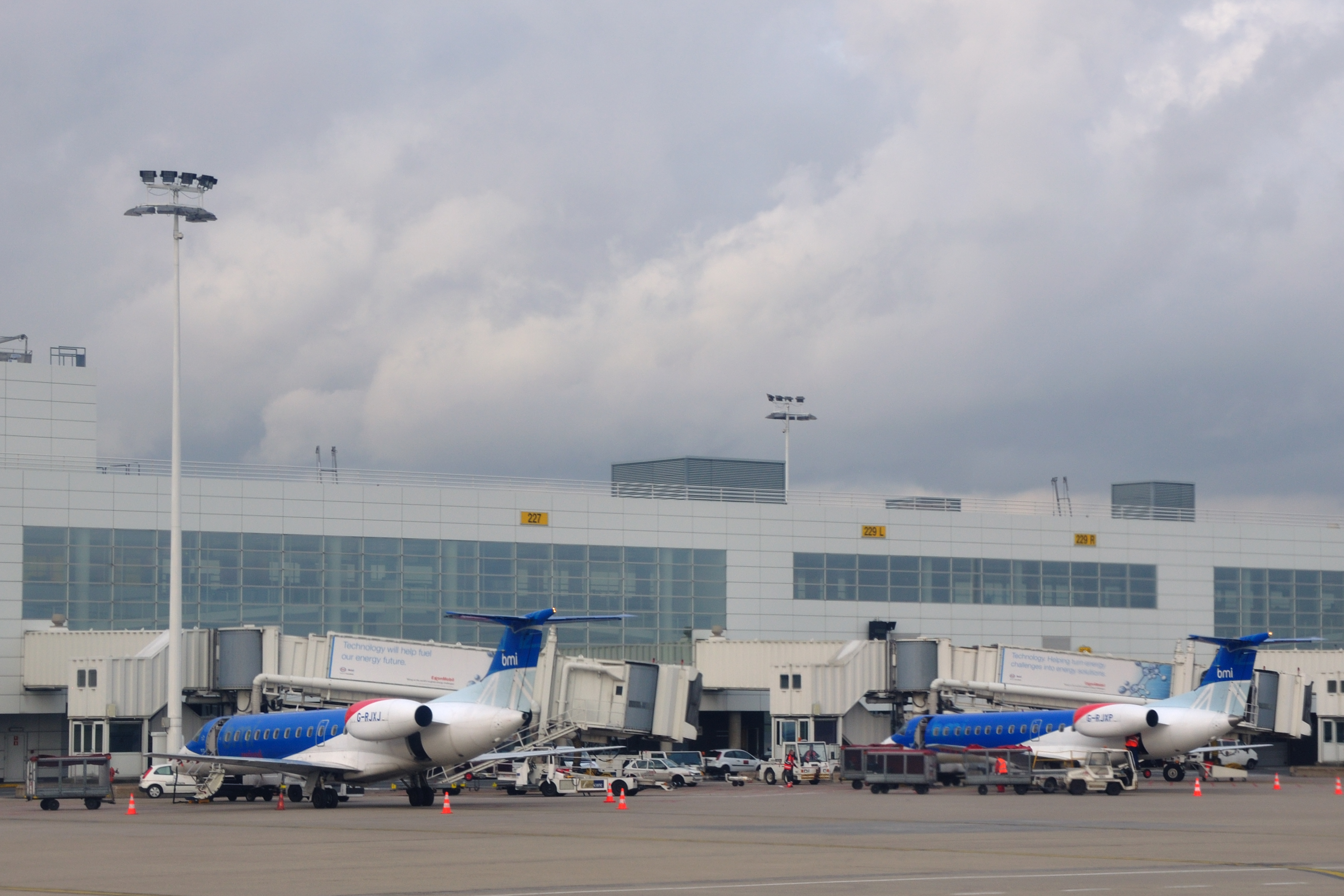 Belgium, Bmi Embraers G-RJXJ and G-RJXP at Brussels Airport